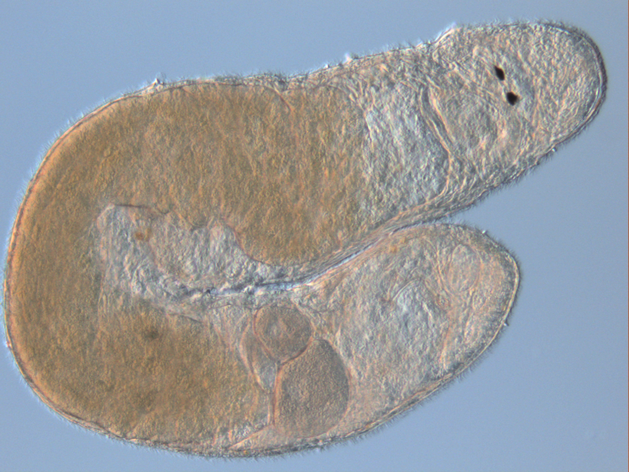 A digital photomicrograph of a living Dolichomacrostomum uniporum, collected in Sylt, Germany (for details